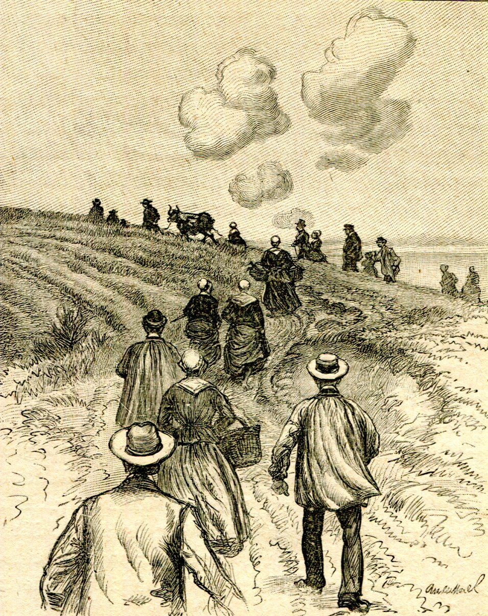 Illustration for G. de Maupassant's story "The Piece of String"